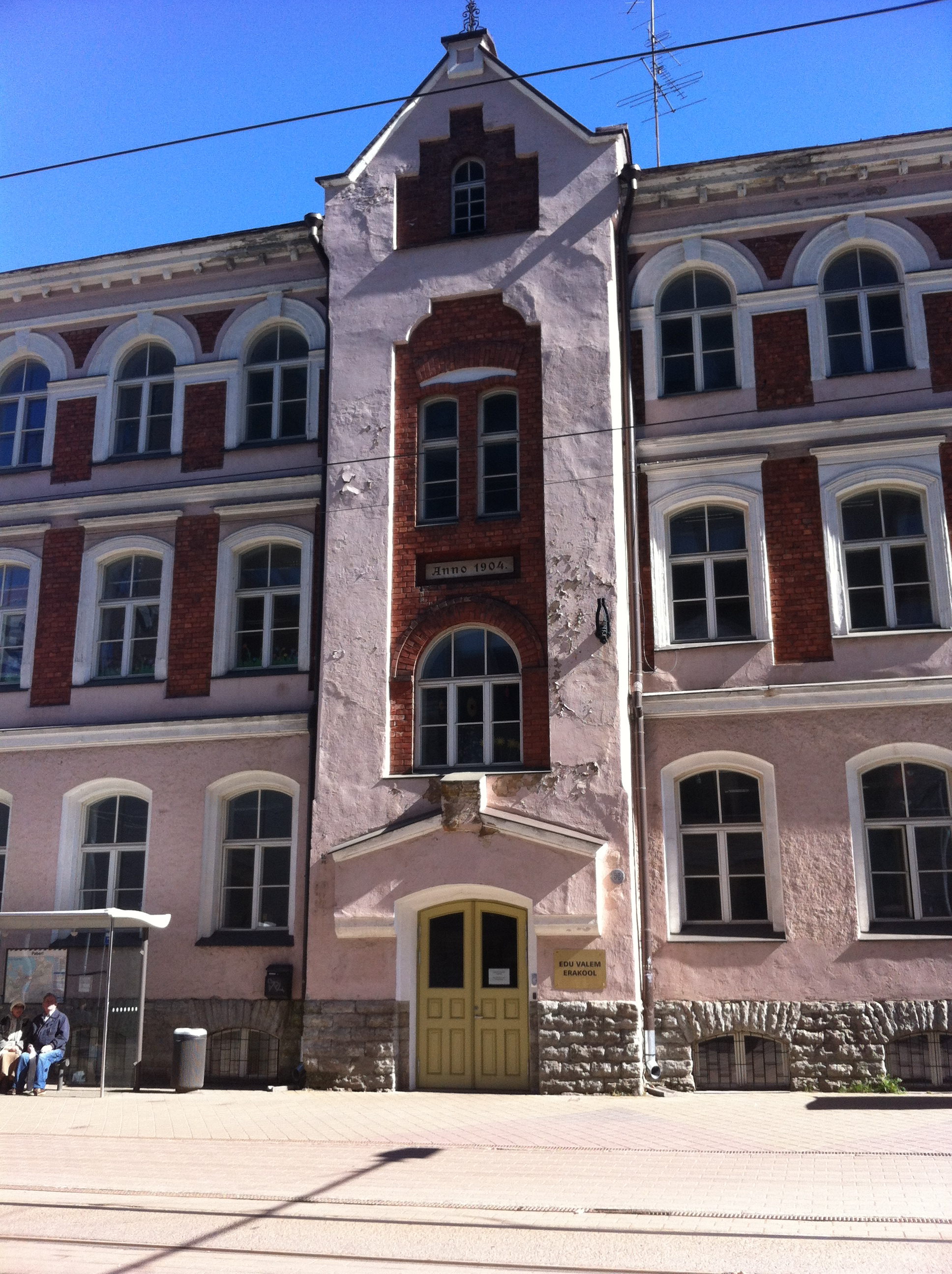 Kompassi, Tallinn, Estonia